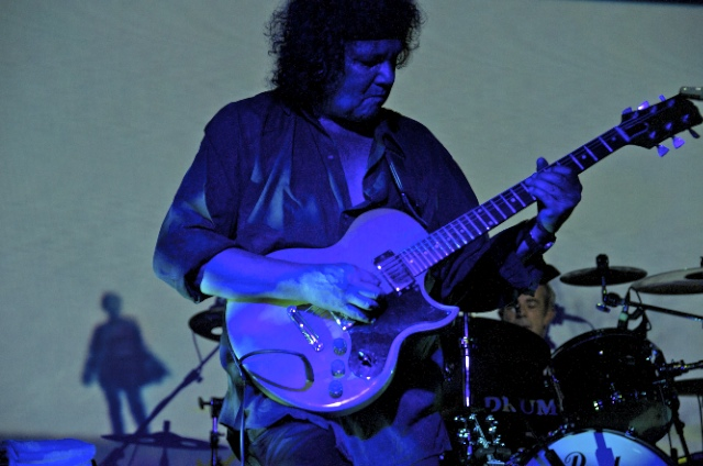 Goblin at the Supersonic Festival 2009 (Massimo Morante pictured)